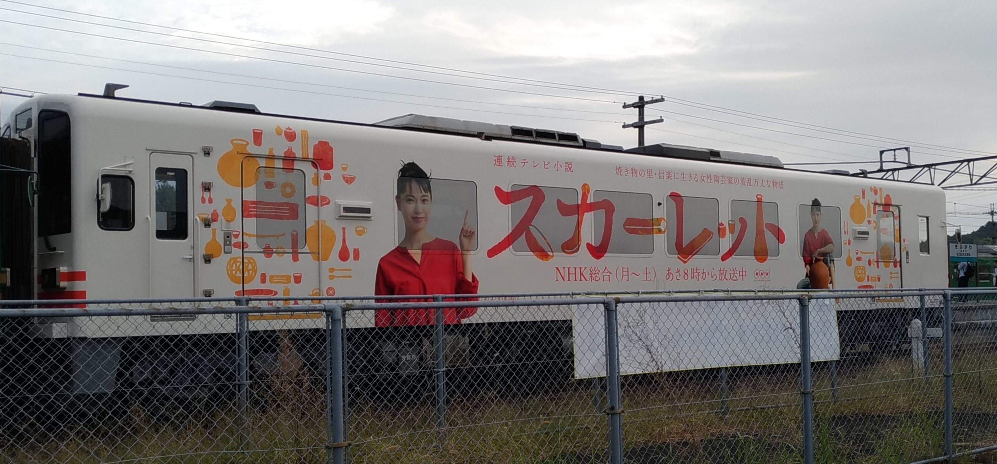 Renzoku TV Shōsetsu "scarlet" advertisements at Shigaraki Kōgen railway train in Koka, Shiga, Japan